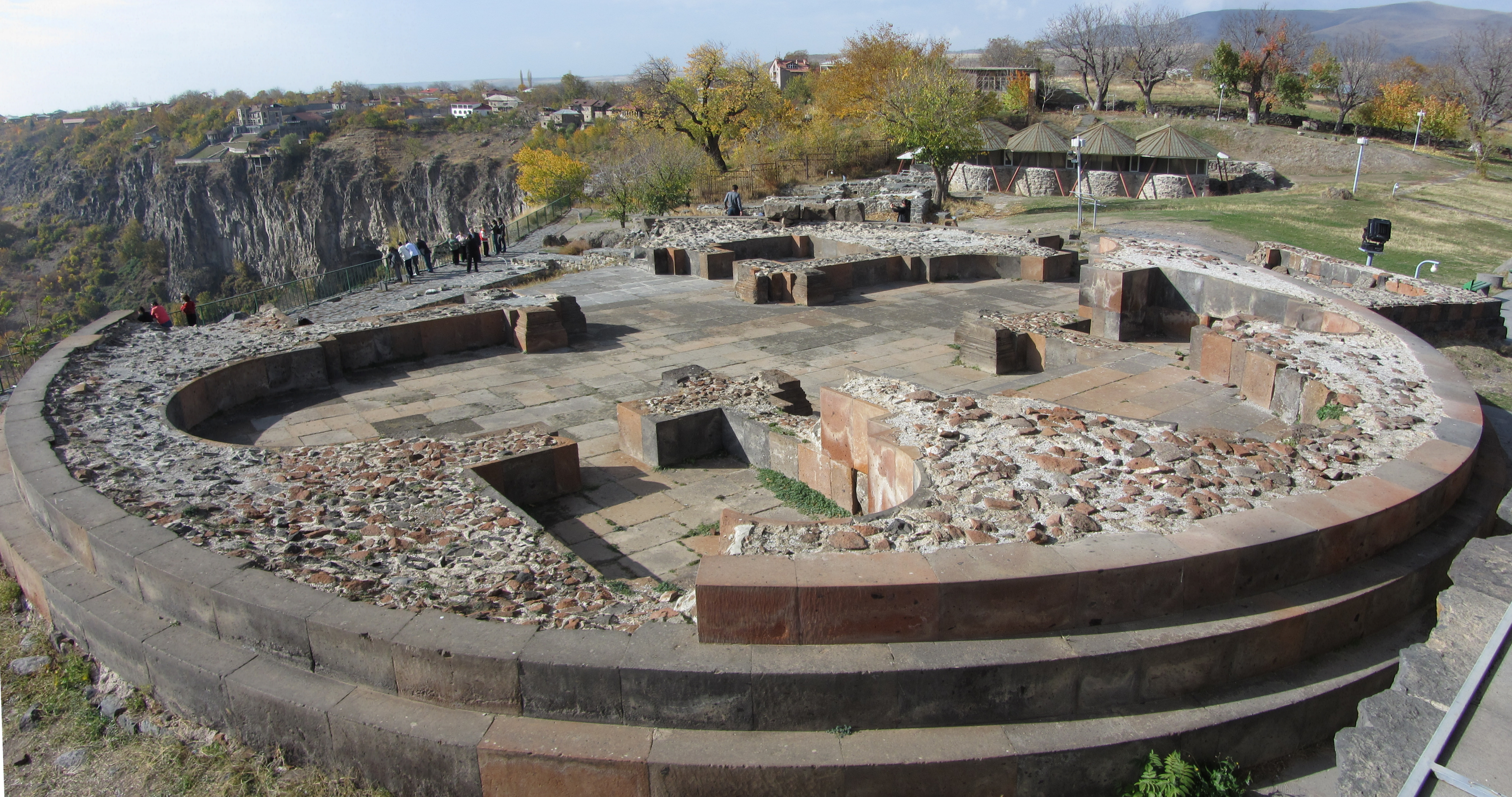 Ruins of Surb Sion Church (7c.)